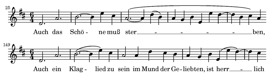 Excerpt from the soprano part in Brahms' Nänie (1881). Illustrates how the initial theme in bar 25 is used again in bar 149.